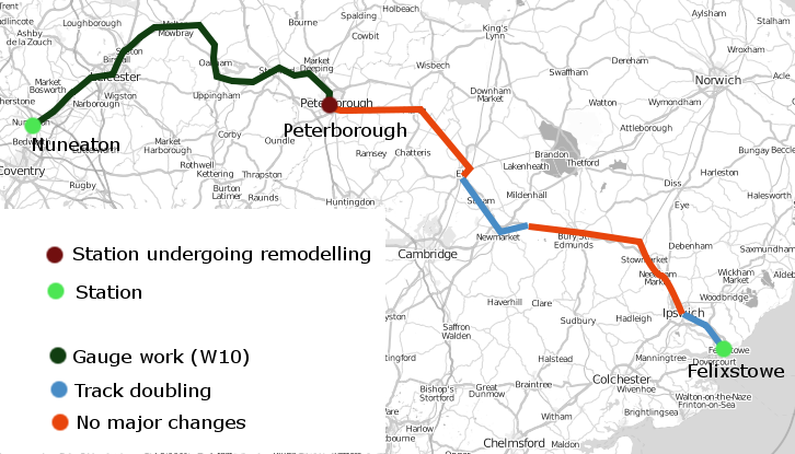 Image showing work being done on Felixstowe to Nuneaton railway.